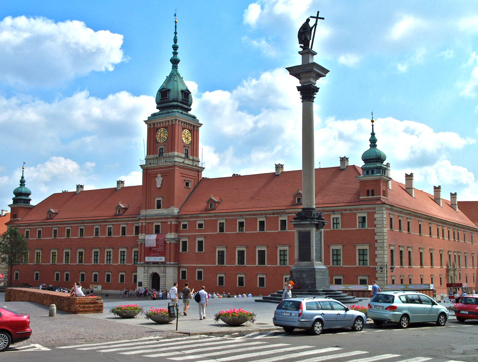 The Royal Castle of Warsaw